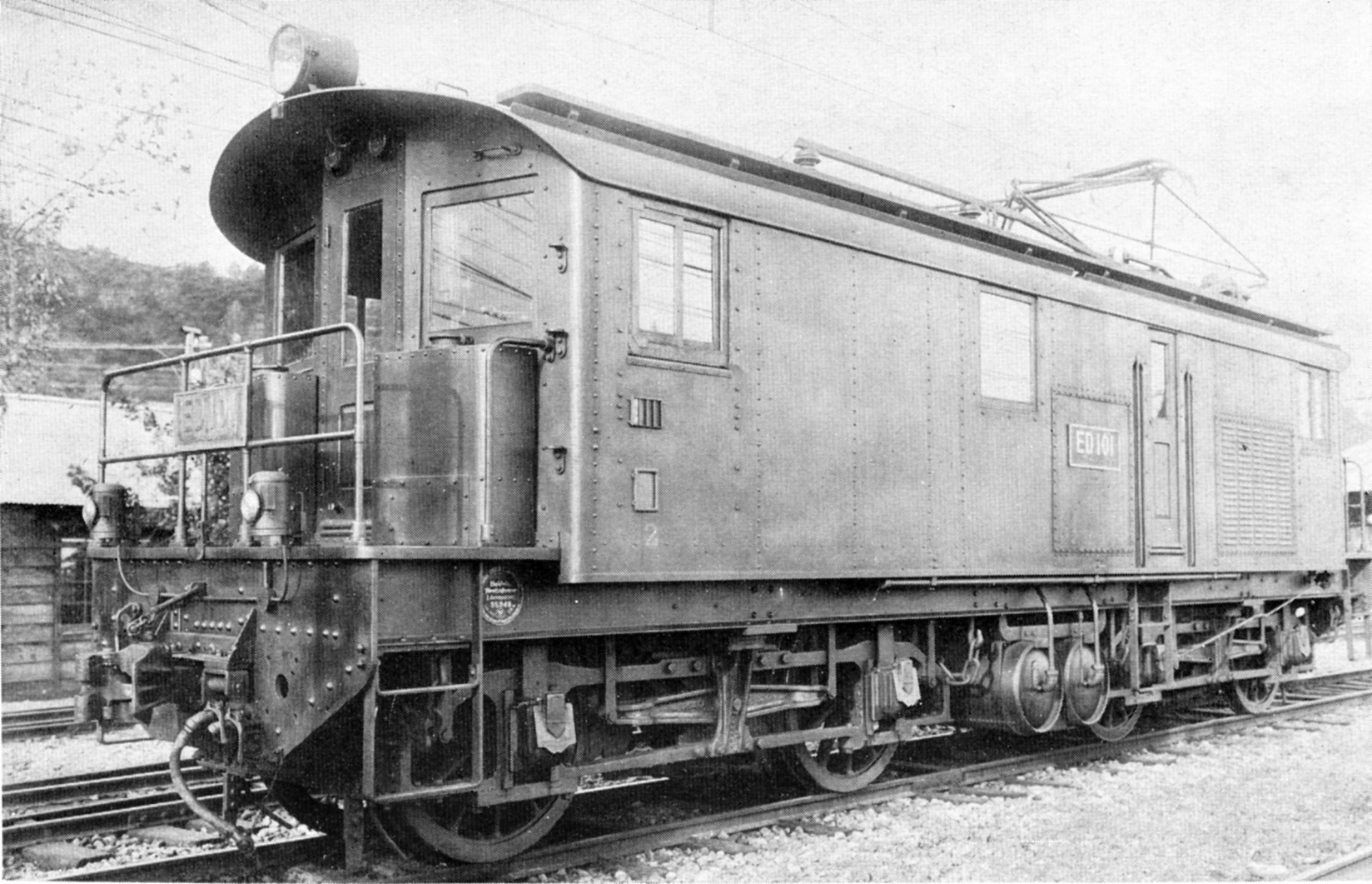 Japanese Government Railways class ED10 electric locomotive